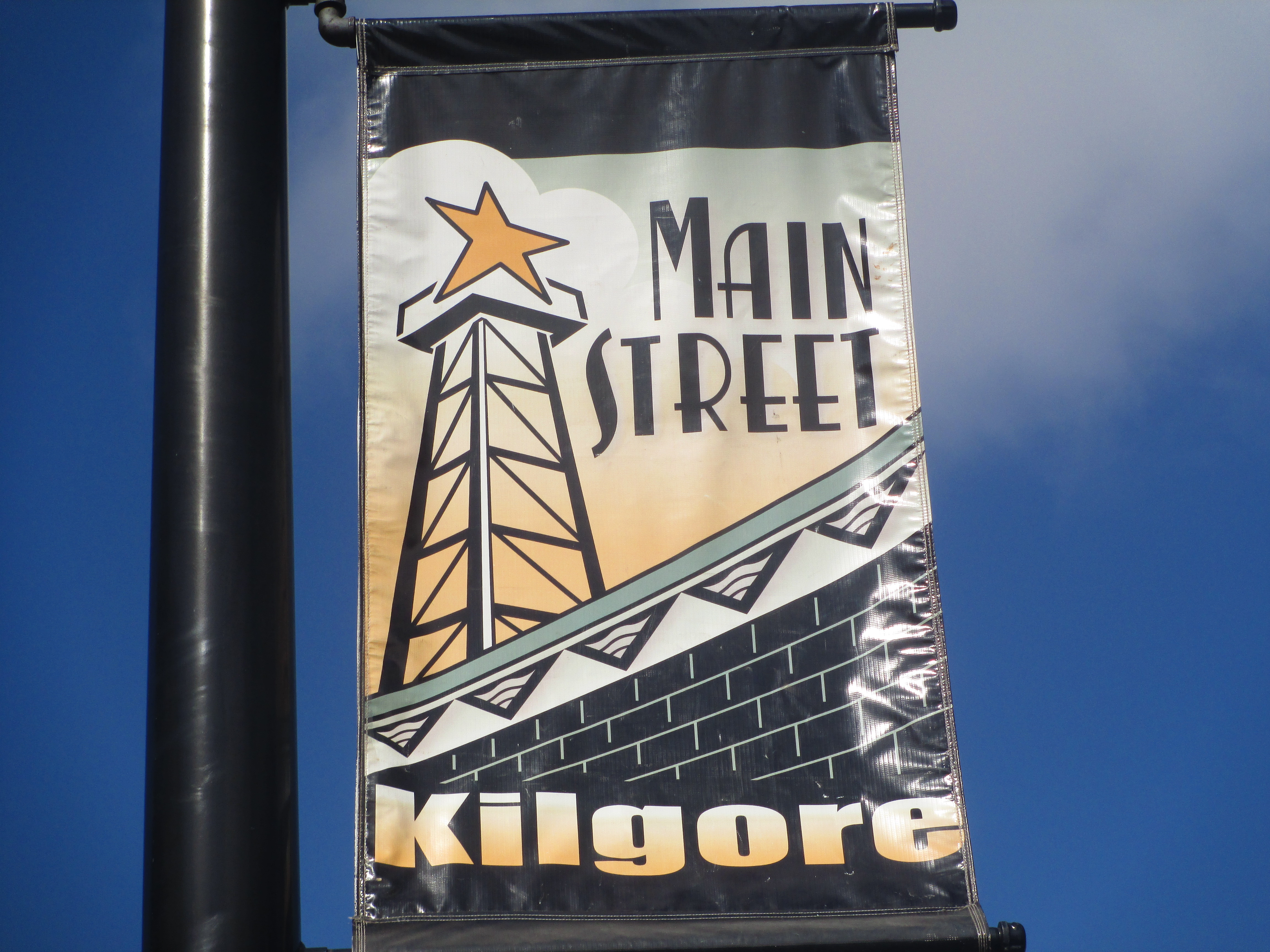 I took photo with Canon camera in Kilgore, TX.